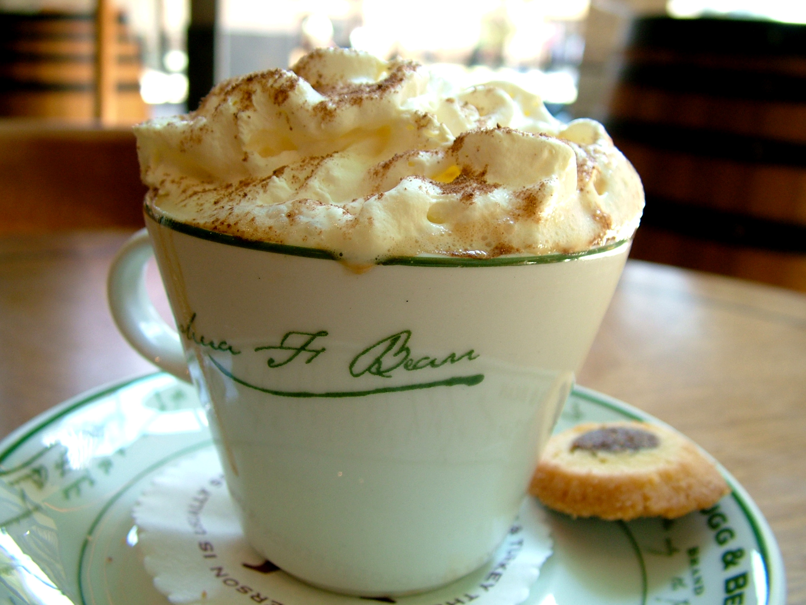 Cup of coffee with whipped cream